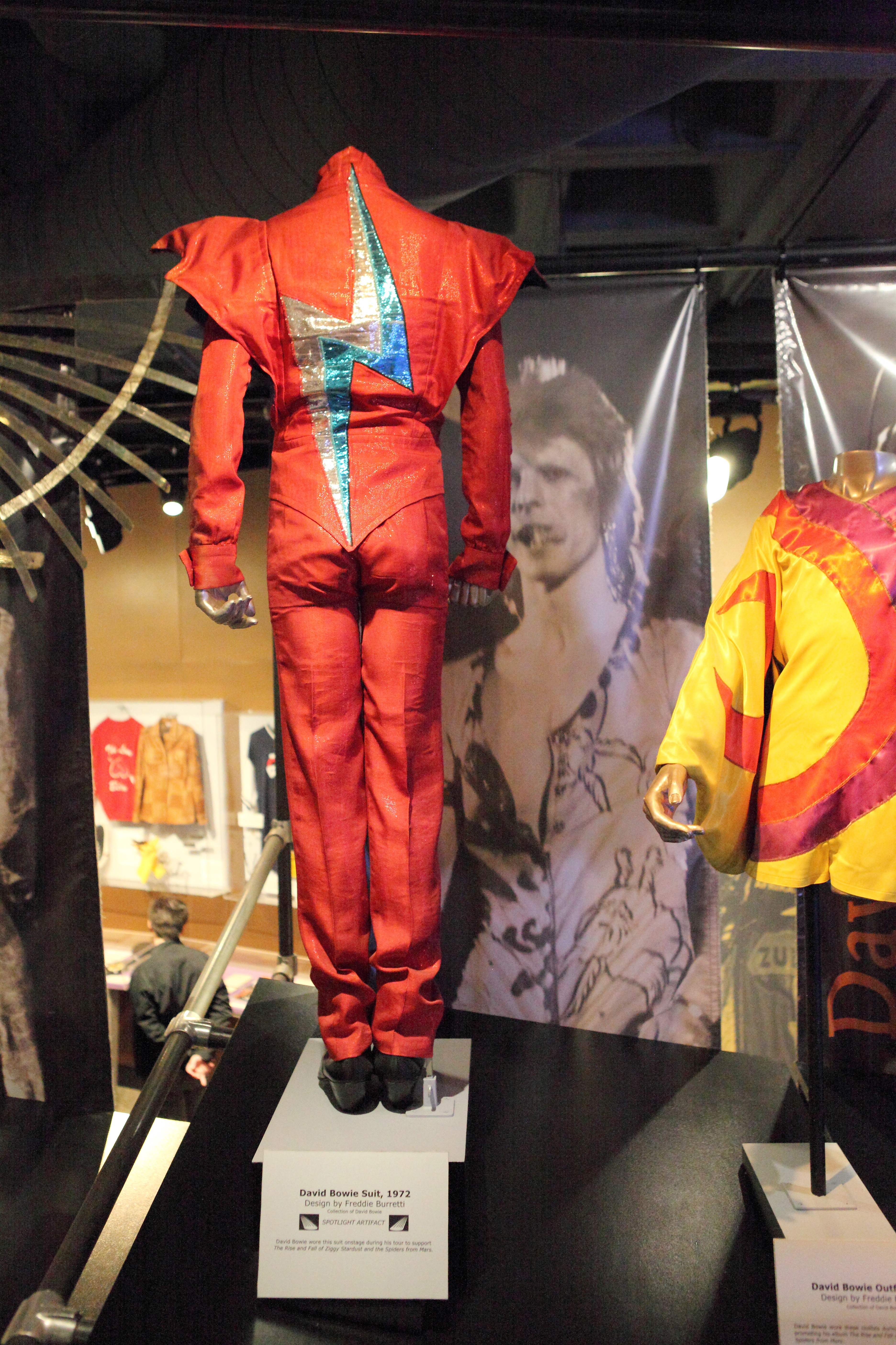 David Bowie's outfit at the Rock and Roll Hall of Fame in Cleveland, Ohio. Flickr Tags: ohio outfit clothing cleveland clothes davidbowie rockandrollhalloffame. Flickr Tags: Rock and Roll Hall of Fame Cleveland Ohio. from Flickr album "Rock and Roll Hall of Fame" by Sam Howzit